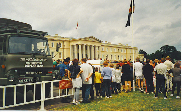 Open Day at the Royal Military Academy Sandhurst opened its doors as well as its grounds. There were many army displays too eg "The Wolds Wagoners Motorcycle Display Team".